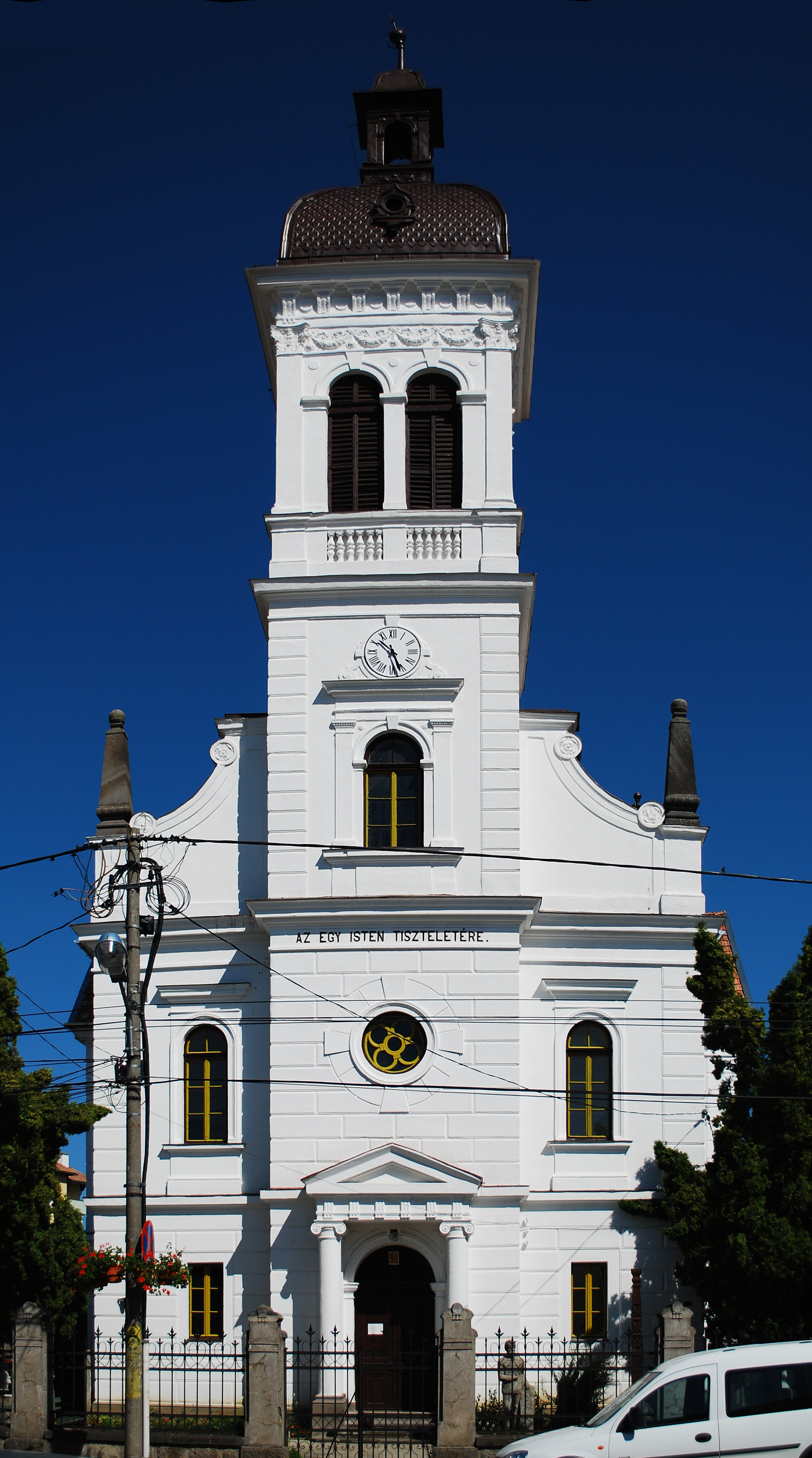 Unitarian church in Odorheiu Secuiesc, Harghita County, RomaniaRomână: Biserica unitariană din Odorheiu Secuiesc, judeţul Harghita, România